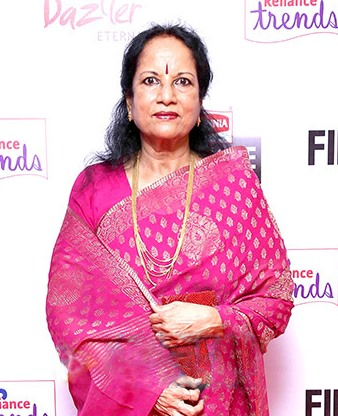 Indian playback singer Vani Jairam at the 62nd Filmfare Awards South, 2015